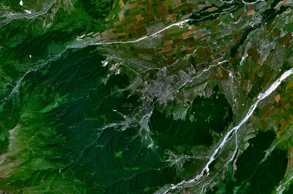 Nalchik, Kabardino-Balkaria, Russia. Satellite view.